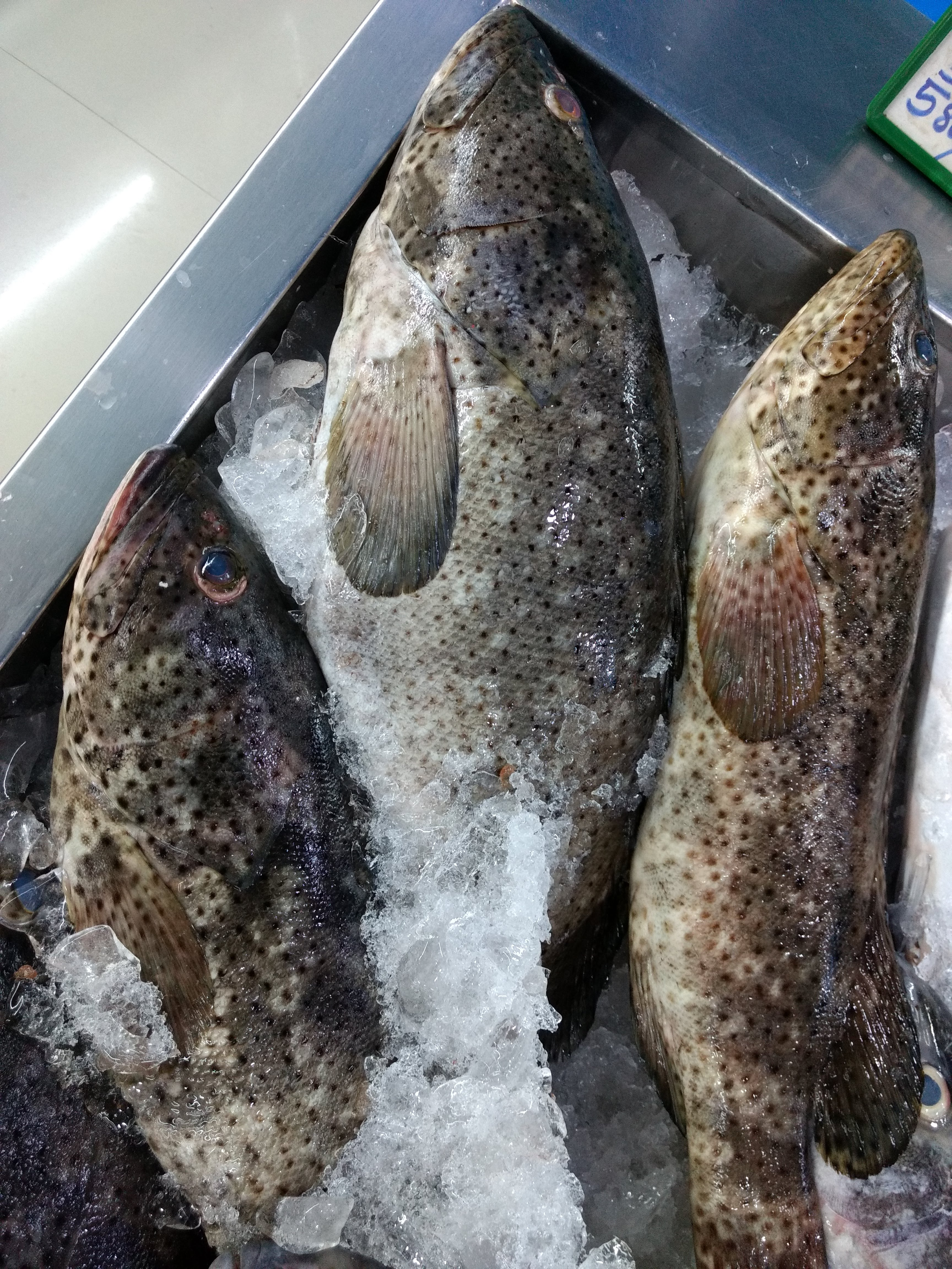 Grouper fish kept in ice for Sale